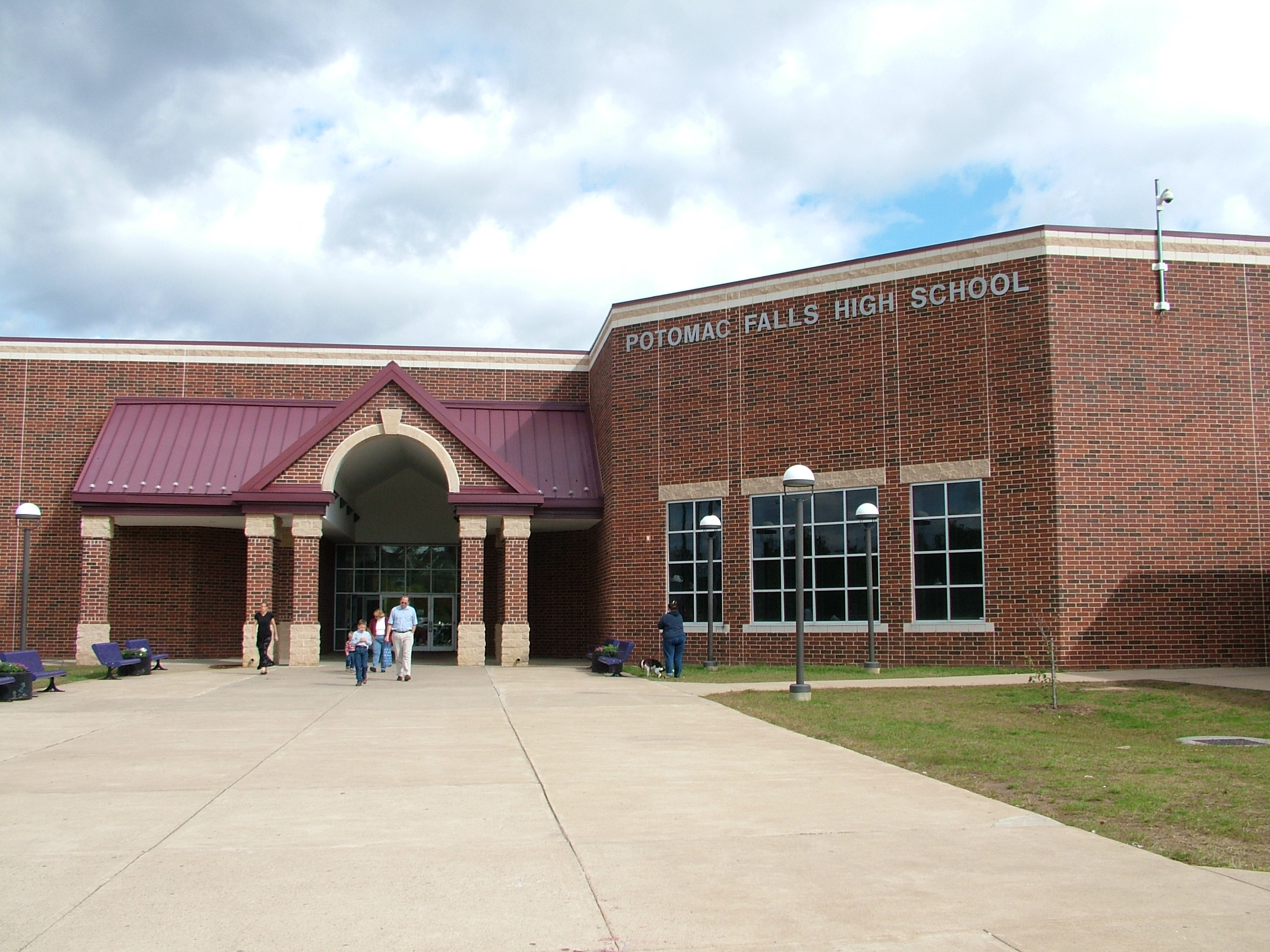 Depicted place: Potomac Falls High School